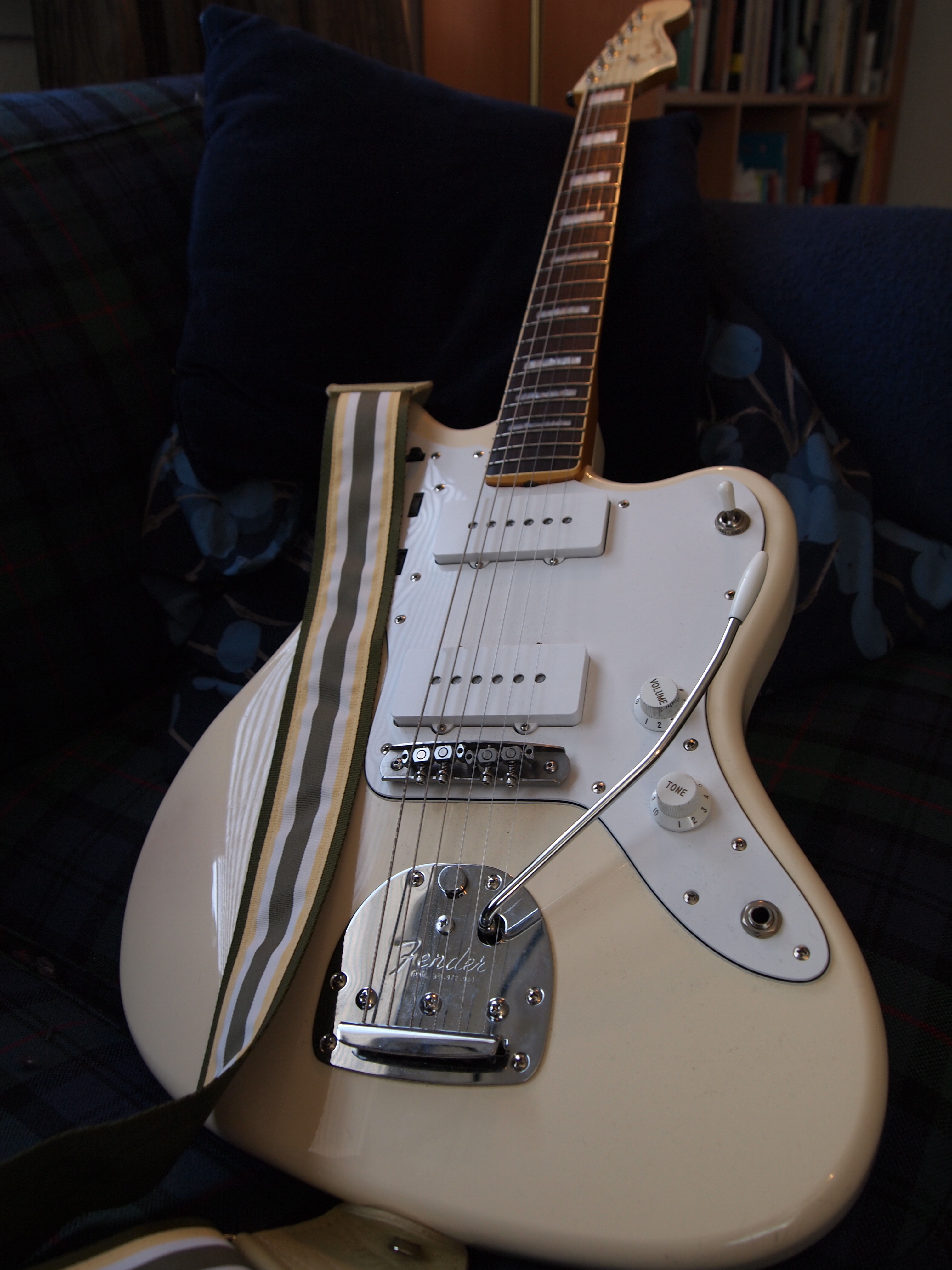 My CIJ Fender Jazzmaster hanging out in the sofa.